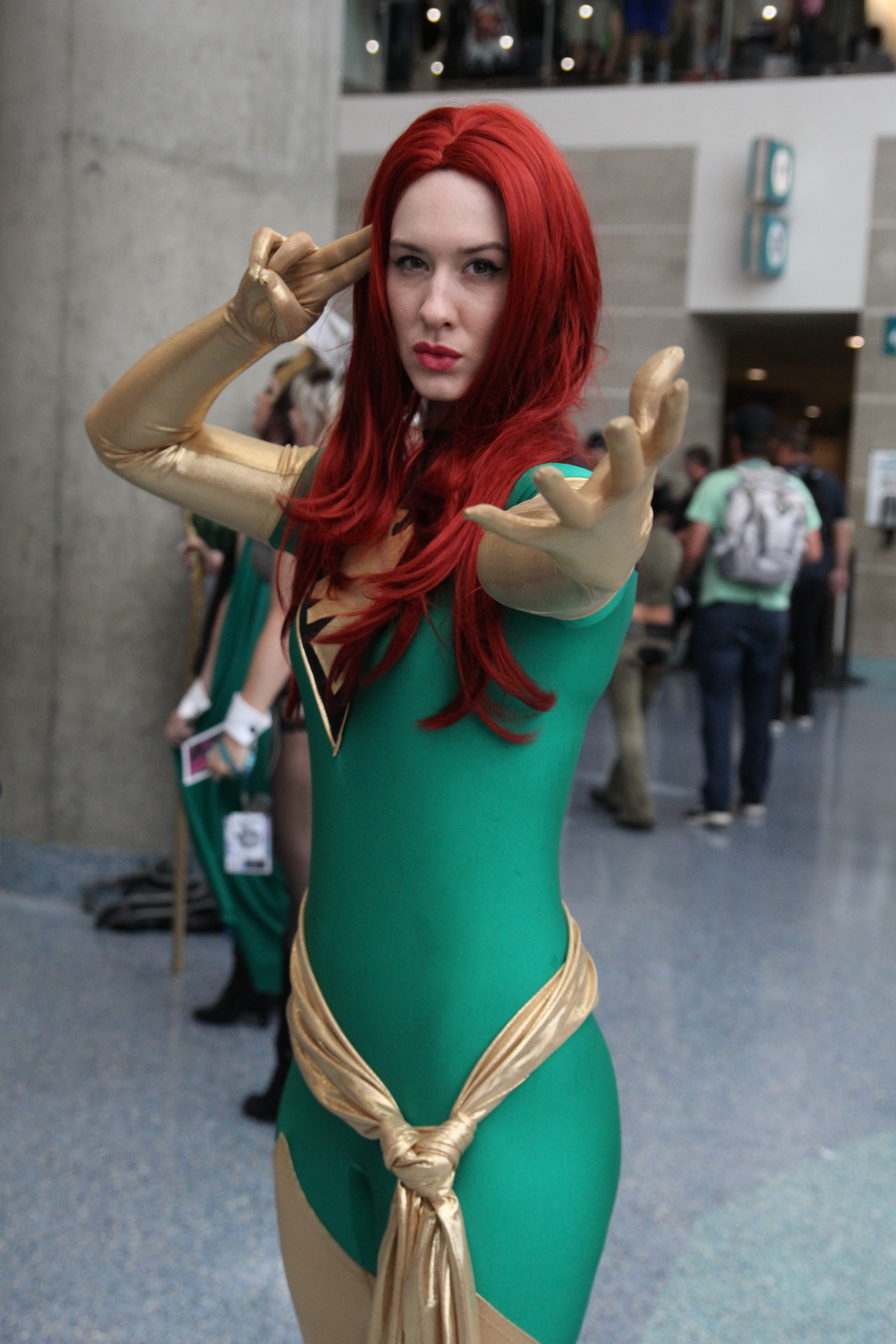 Wondercon 2016 - Jean Grey [Phoenix] Cosplay Cosplay at WonderCon 2016.